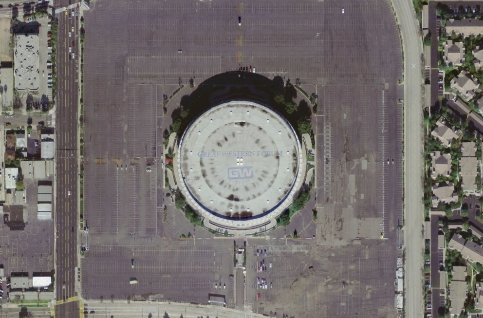 Satellite view of The Forum indoor arena in Inglewood — Los Angeles area, Southern California. NASA World Wind 1.3.5 — (2006).